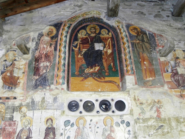 Megala Meteora